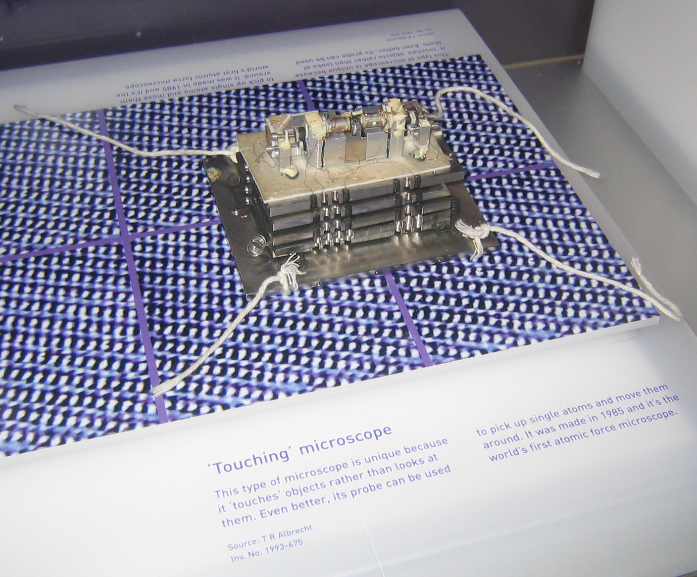 The world's first atomic force microscope on display in the Science Museum in London, UK.